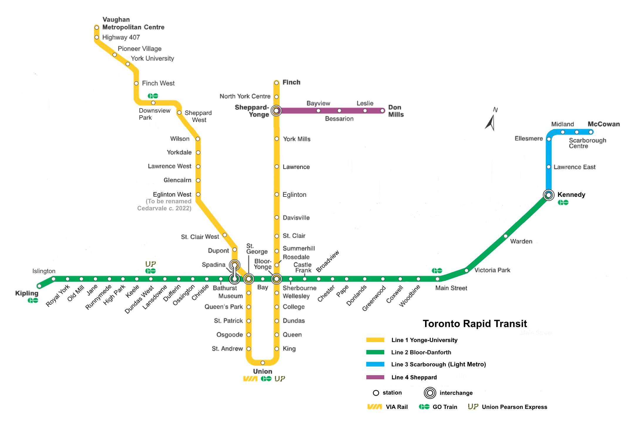 TTC subway/RT map (as of 2018); based on map at Modified from self-made map